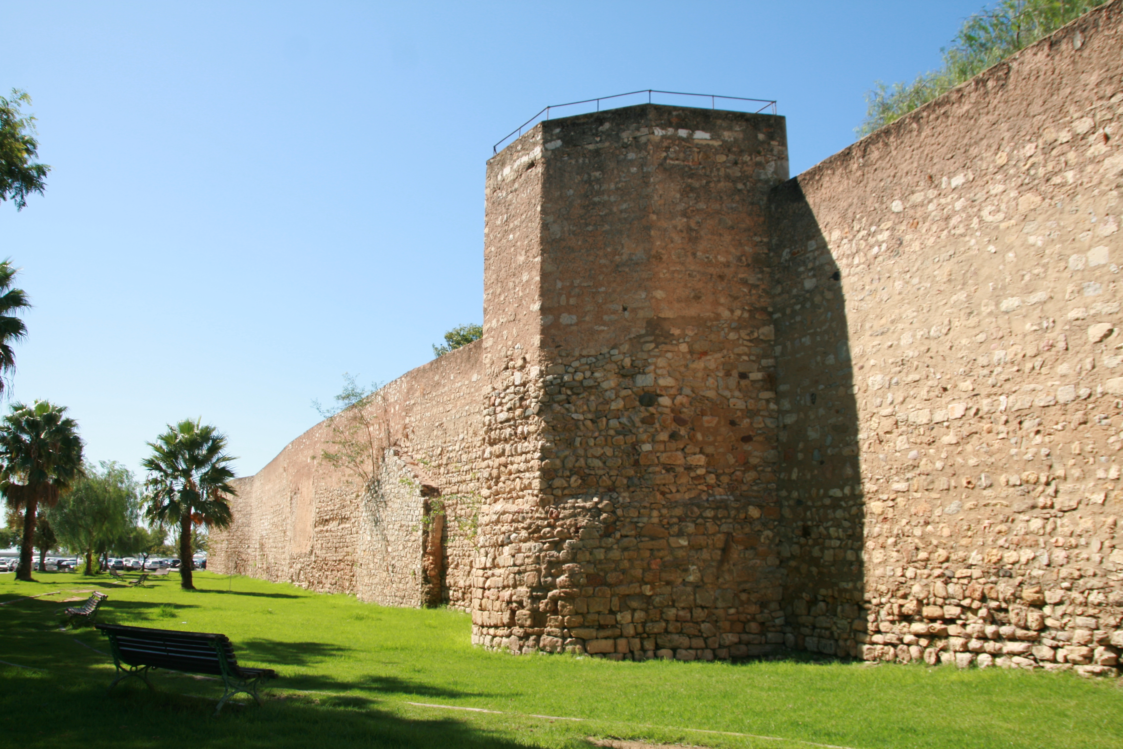 This file was uploaded for Wiki Loves Monuments in Portugal with the unique identifier 74878.